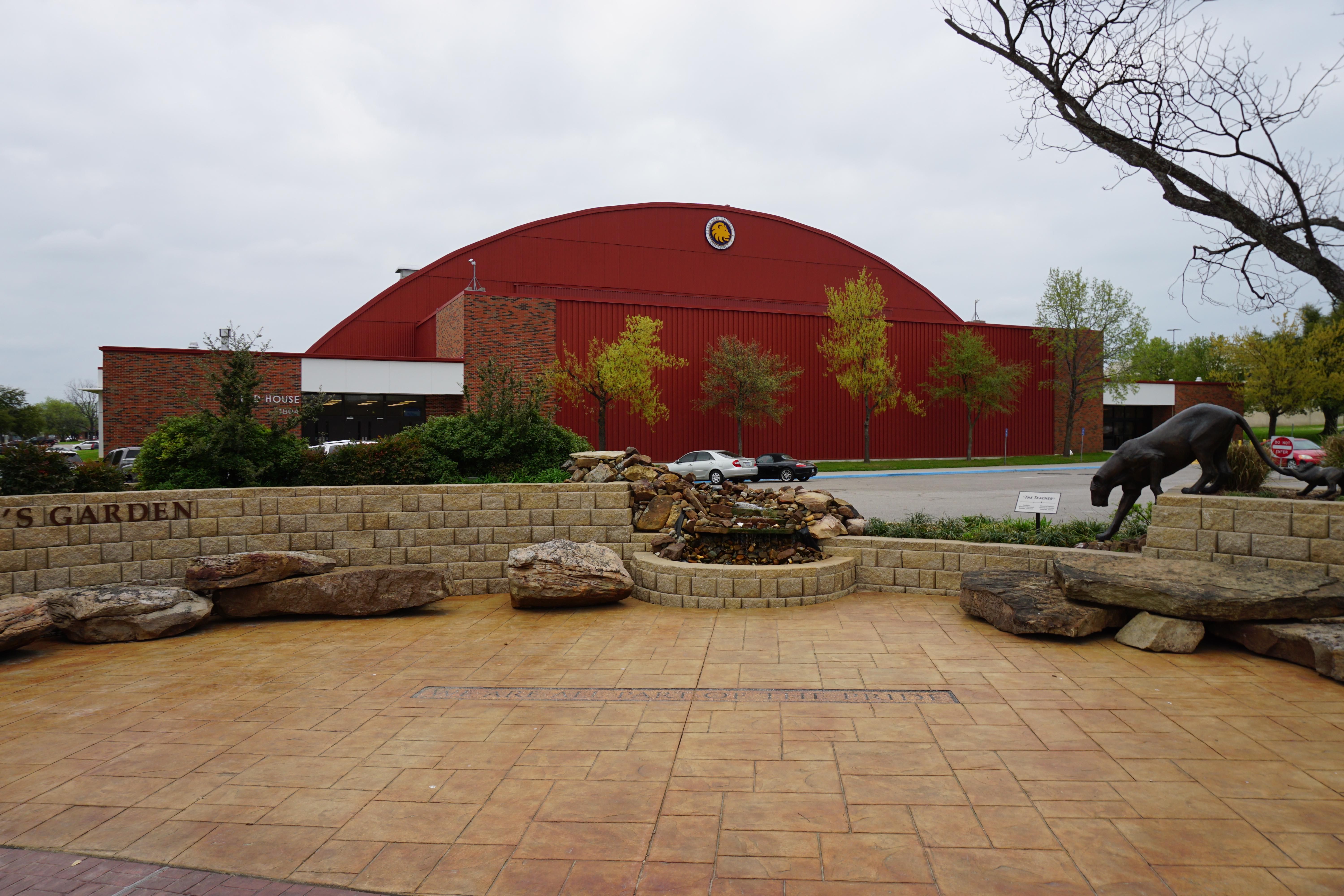 Rachel's Garden and the University Field House on the campus of Texas A&M University–Commerce in Commerce, Texas (United States).